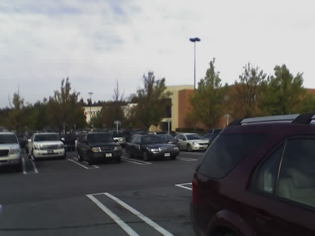 parking lot of mall, with stores visible